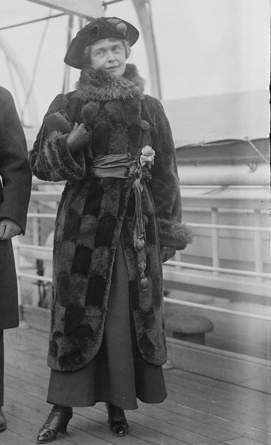 Mrs. Benjamin Barr Lindsey (November 25, 1869 - March 26, 1943)in 1915 (cut).